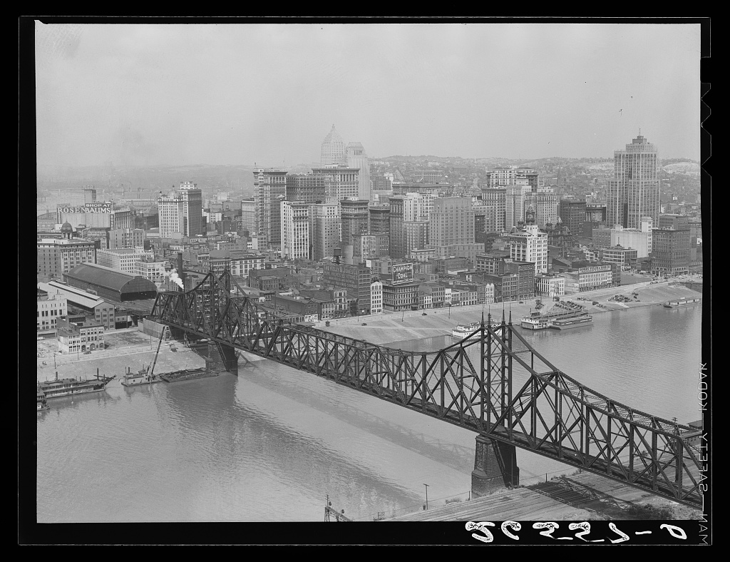 View of downtown Pittsburgh, Pennsylvania, with Wabash Bridge. Transfer; United States. Office of War Information. Overseas Picture Division. Washington Division; 1944. More information about the FSA/OWI Collection is available at